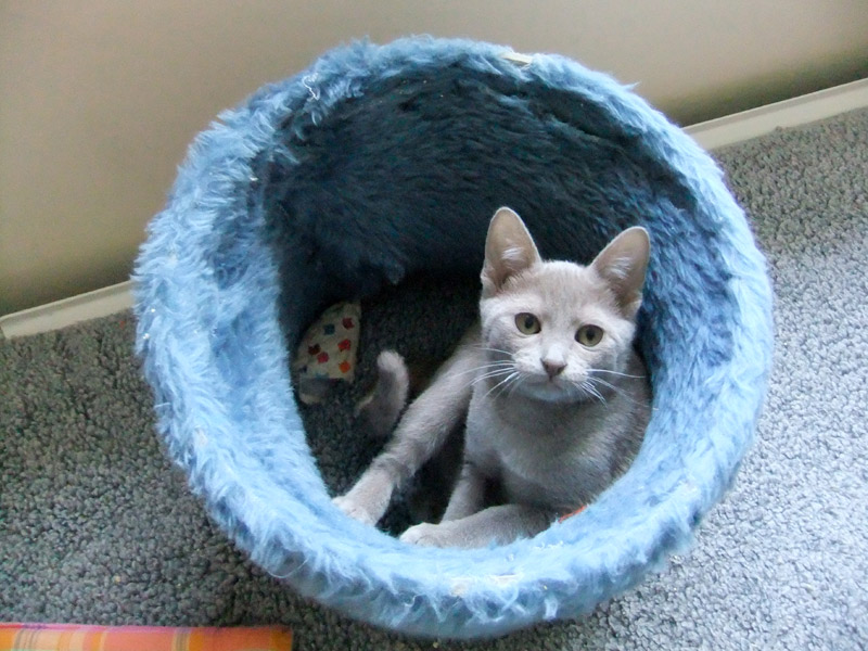 12-week old Thai Lilac kitten from the Maipenrai line on the Isle of Man. Breeder: Janet Jeffers